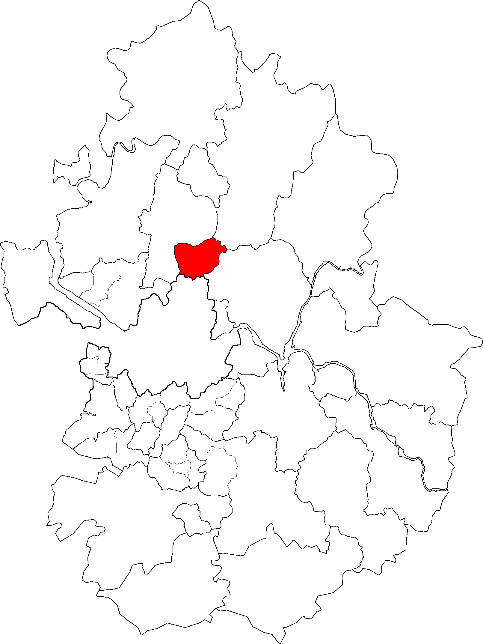 Uijeongbu City, Gyeonggi Do(Province)